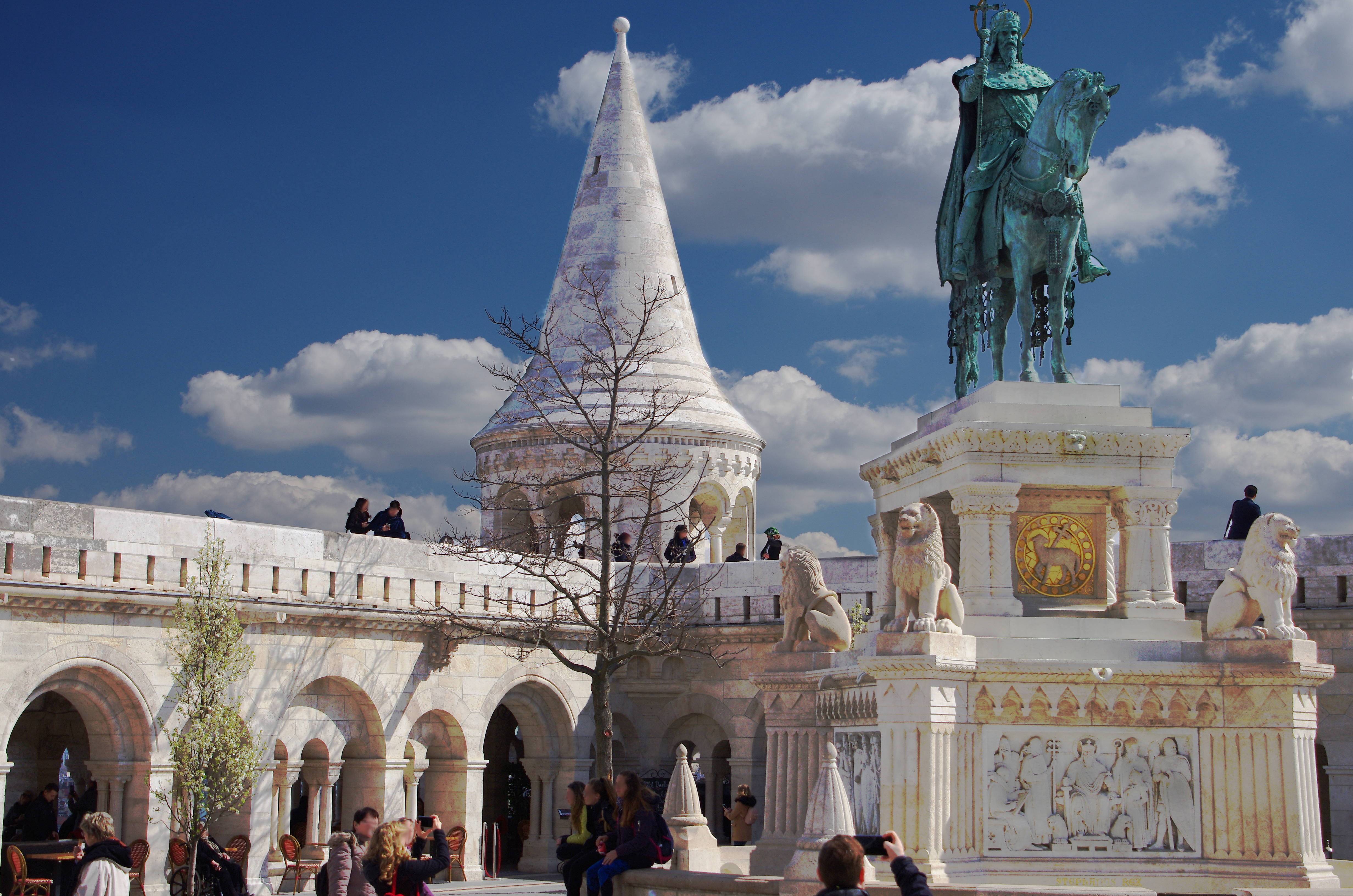 03 2019 photo Paolo Villa - F0197864 bis- Budapest - Bastione dei pescatori - Statue of Stephen I of Hungary in Buda Castle - Fisherman's Bastion